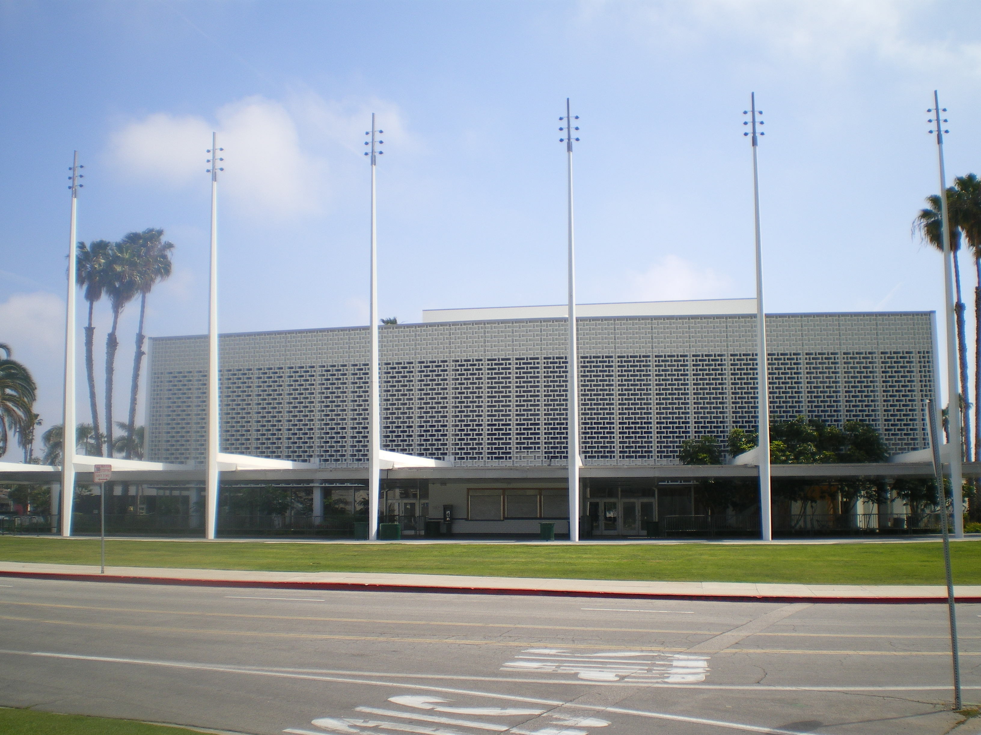 Santa Monica Civic Auditorium, Santa Monica, California. The 3,000-seat Santa Monica Civic Auditorium, designed in the International Style by Welton Becket & Associates, opened in July 1958.